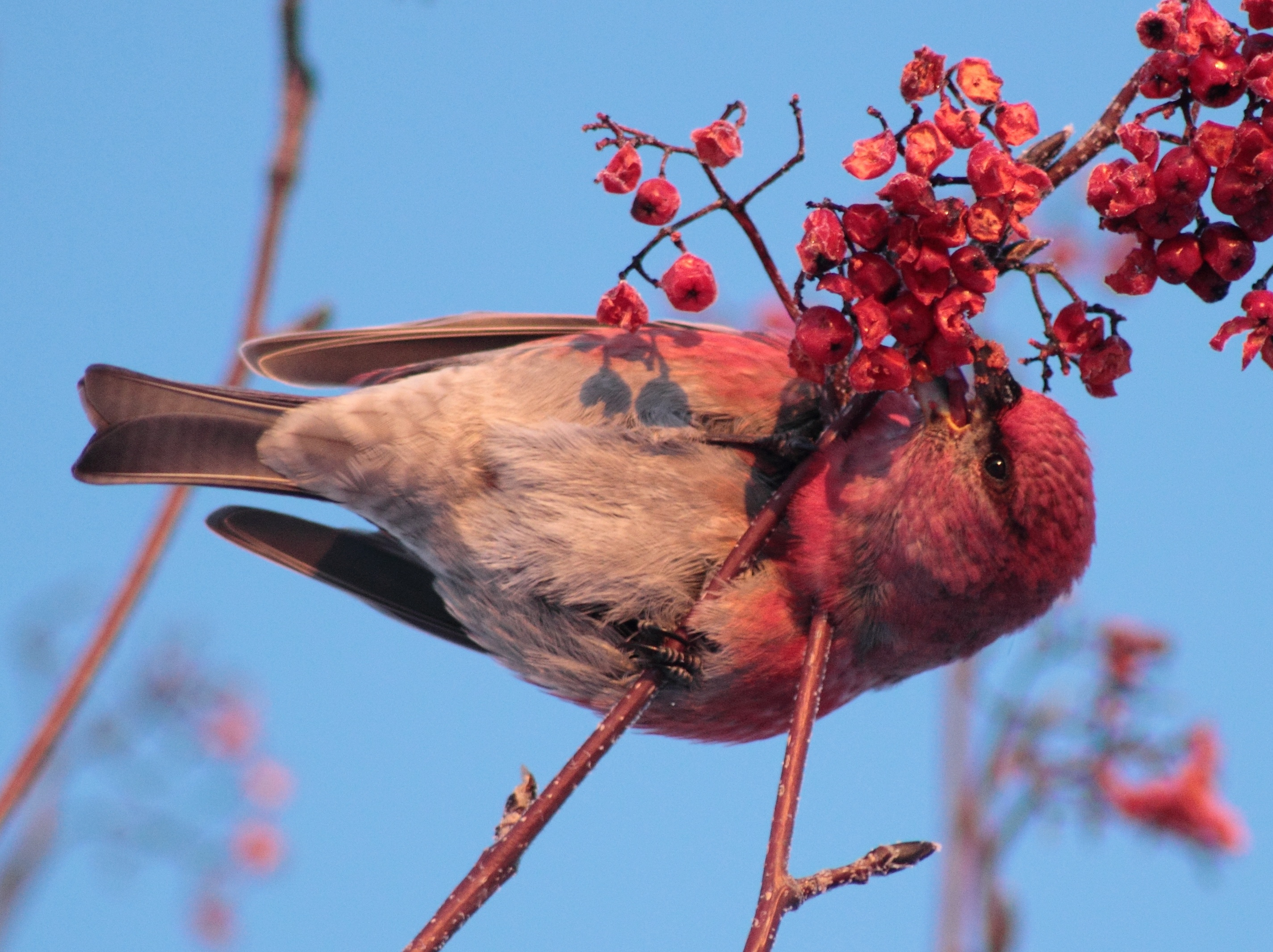 Pine Grosbeaks (Pinicola enucleator) in Raatinsaari, Oulu.